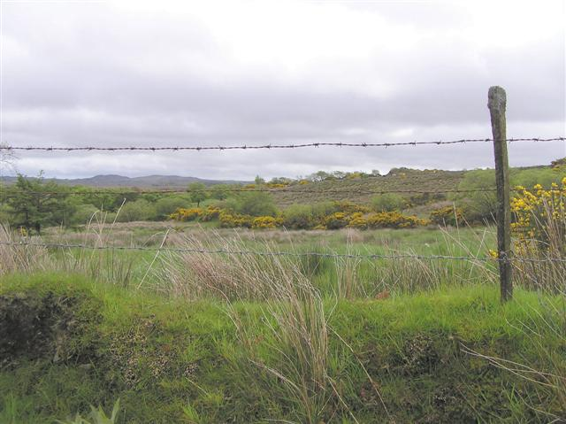 Copney. There is a stone circle beyond this point but the local farmer would not give permission to enter his ground, however it can be seen here